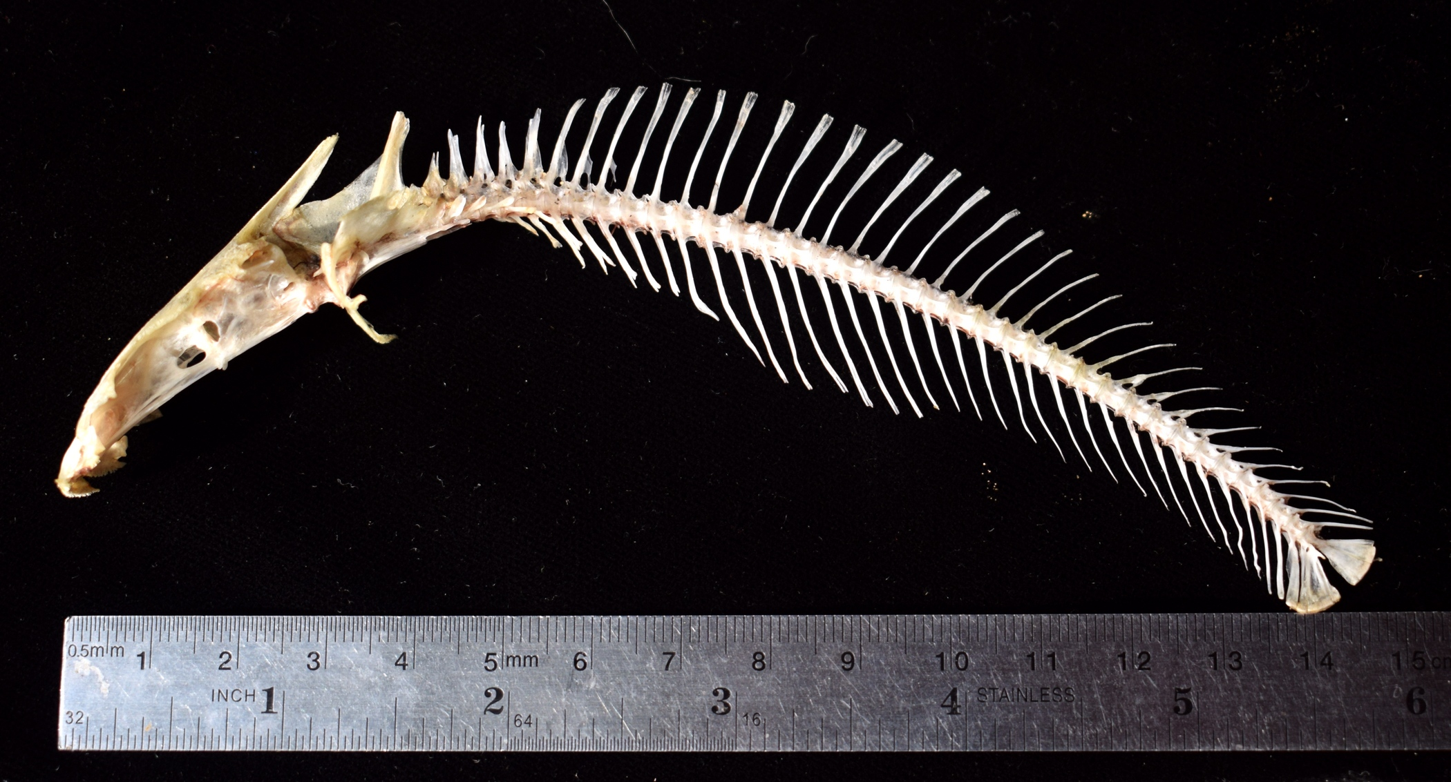 Mystus singaringan, female, 175mm SL; from Cihideung, a tributary of Cisadane River, Bogor, West Java, Indonesia. Head skeleton and vertebrae.